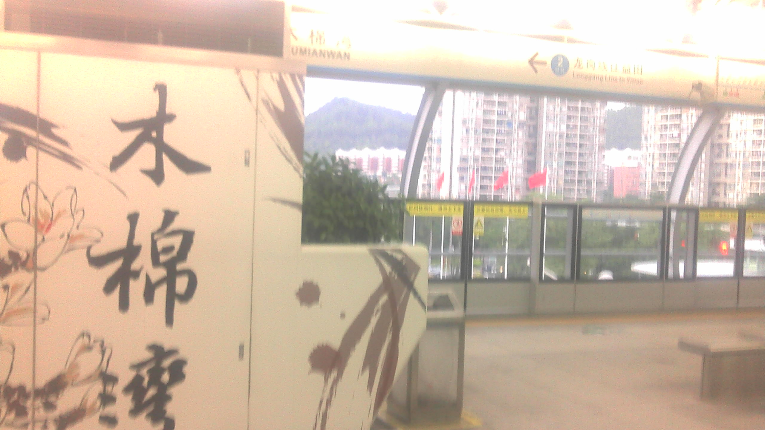 This photo was taken as Oct 14, 2011.